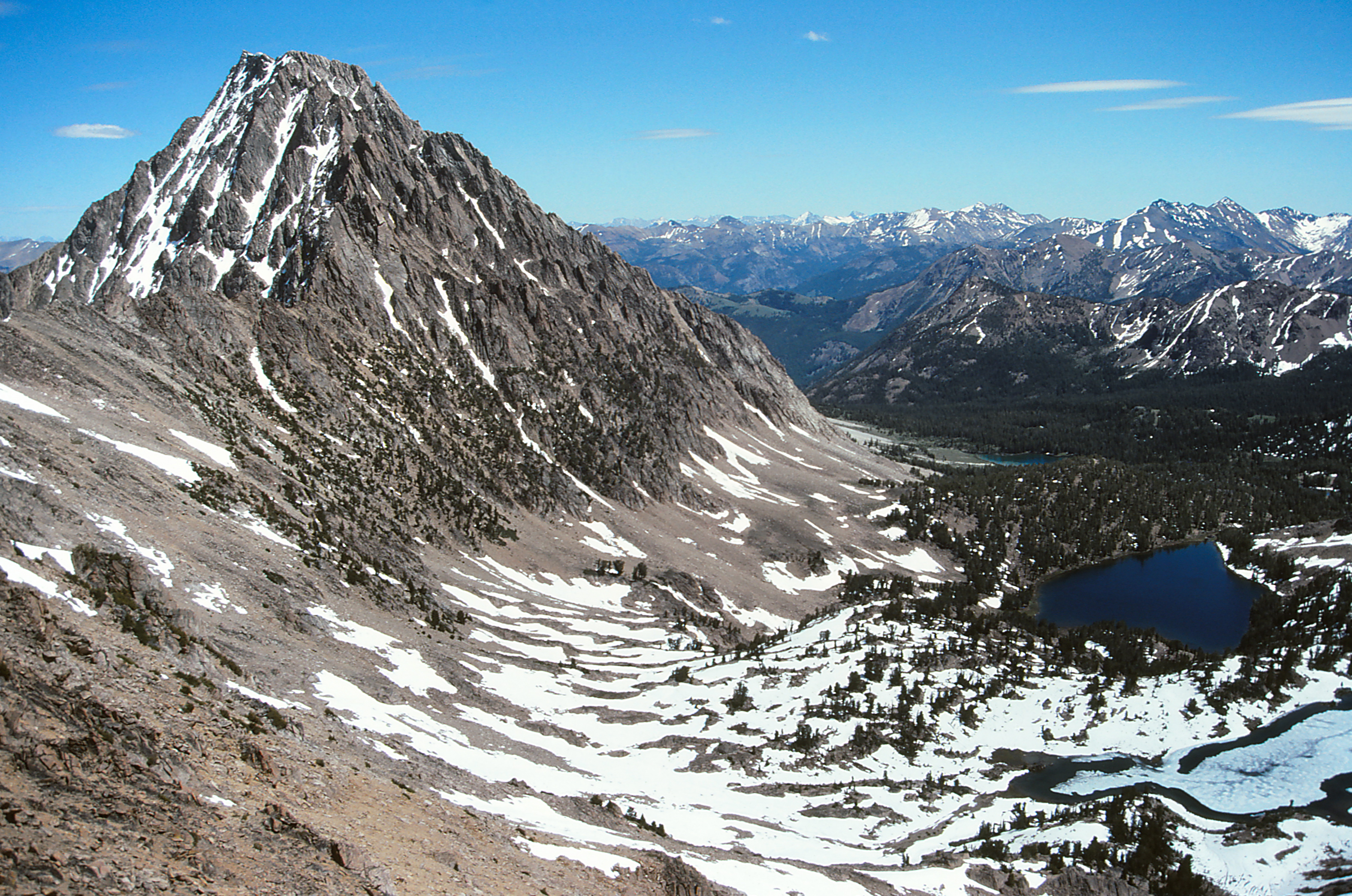 The highest summit in the White Cloud Peaks of central Idaho (11,815 feet (3,601 m)). The ridge to the west flank of Castle Peaks looked a bit steep for day hikers. Stunning view from the ridge above Washington Lake. Scanned slide.